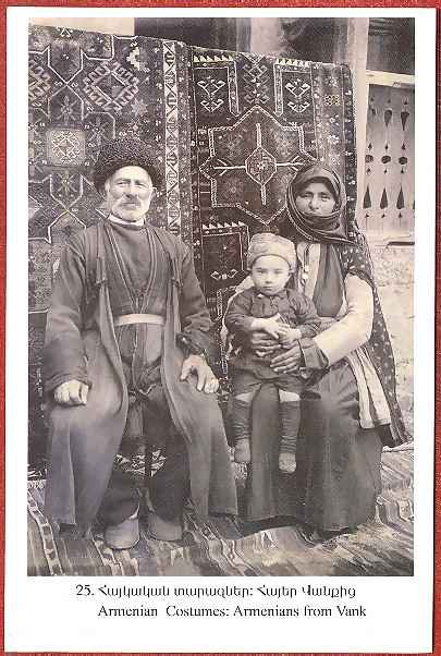 Armenian family from Vank.